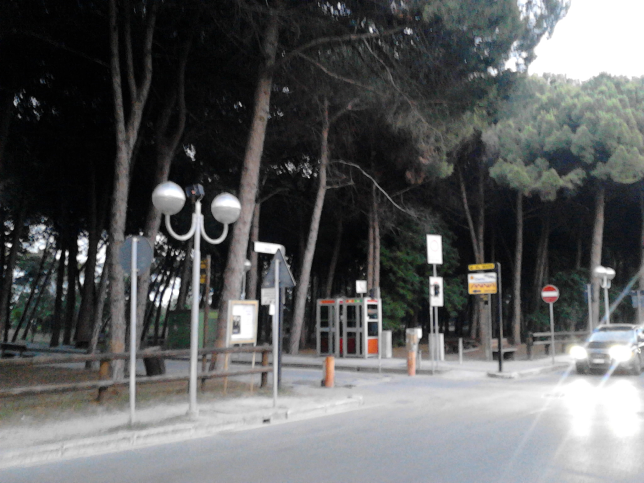 The Pineta CERVIA